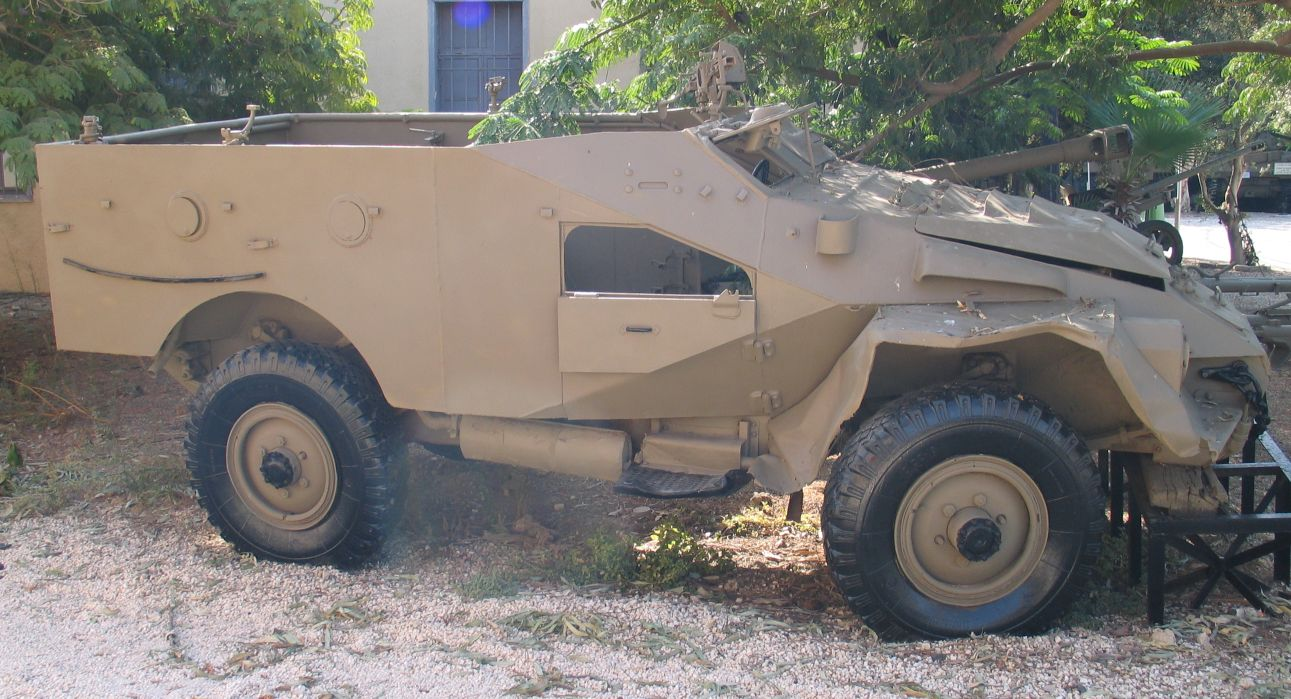 Description: BTR-40 in Batey ha-Osef museum, Tel Aviv, Israel. 2005. Source: Photo by me, User:Bukvoed.